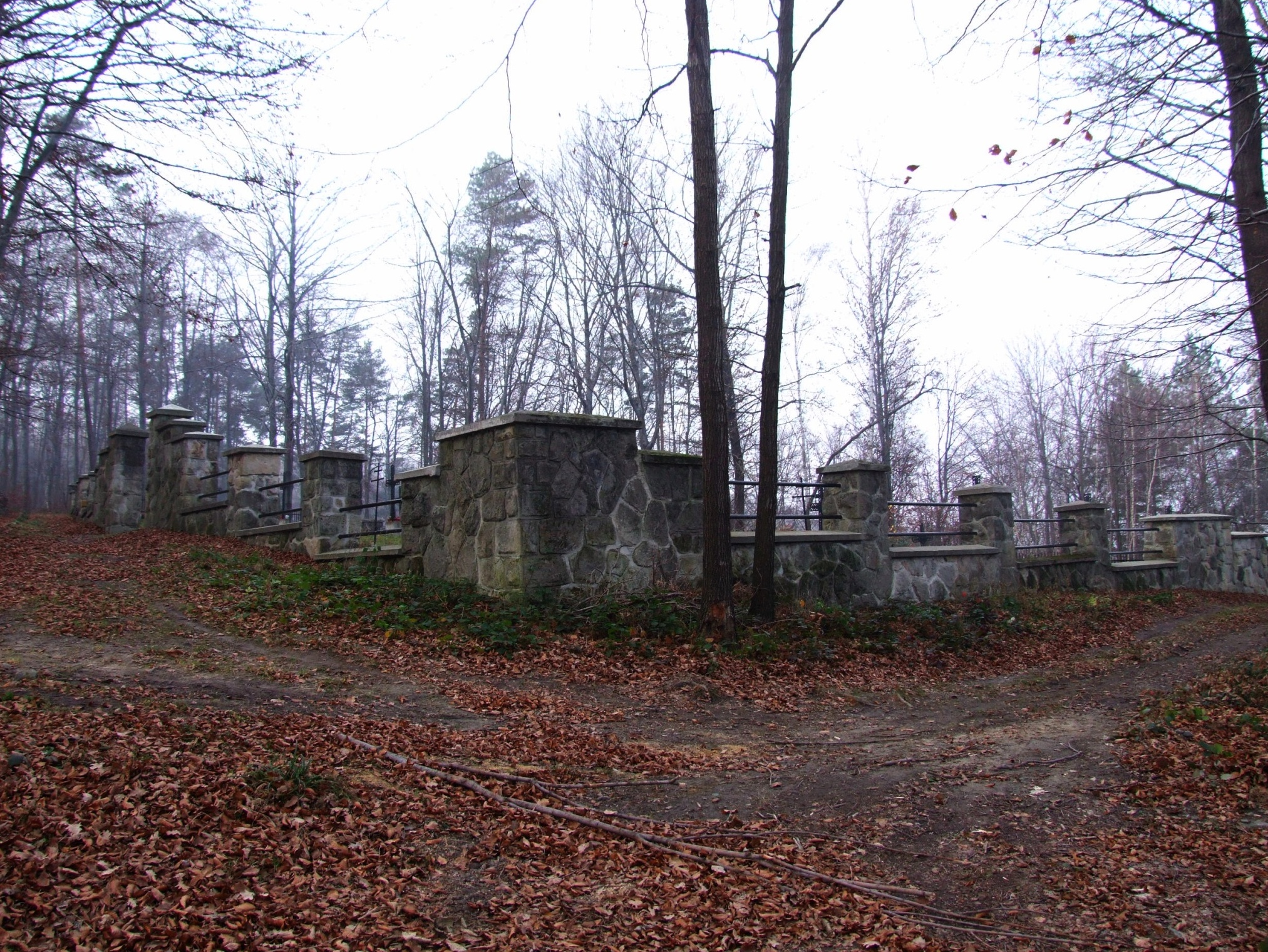 World War I Cemetery nr 340 in Wola Nieszkowska